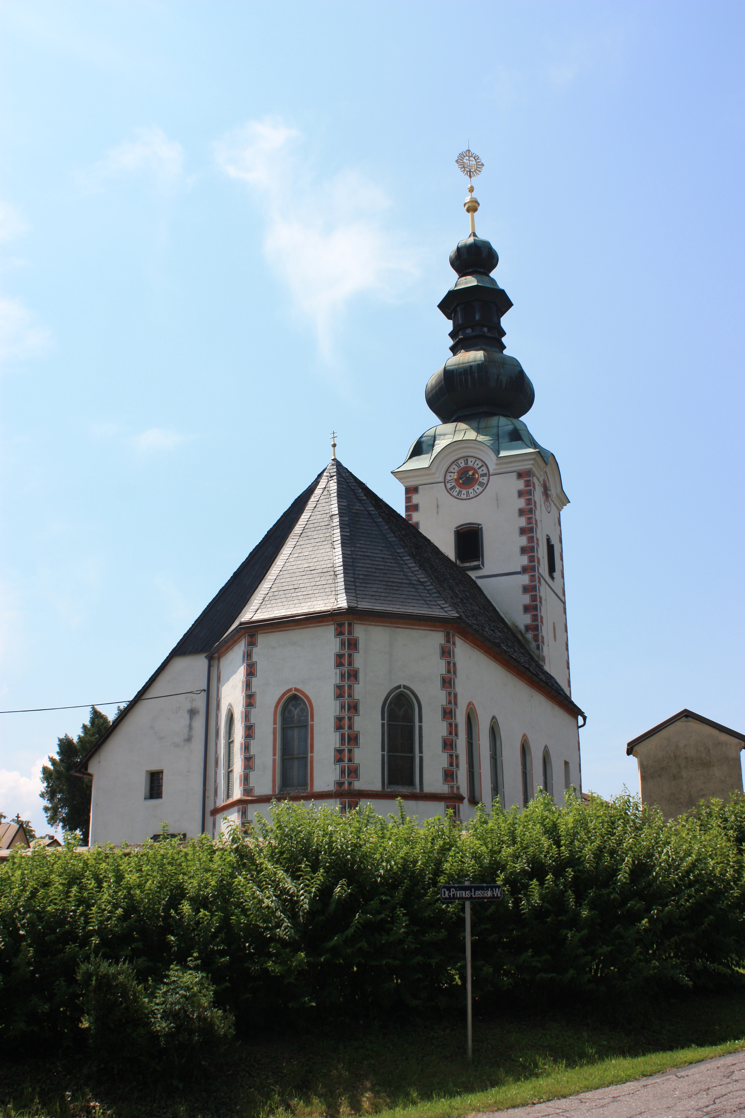 Parish church Saint Martin Locality: Martinsteig Community:Klagenfurt